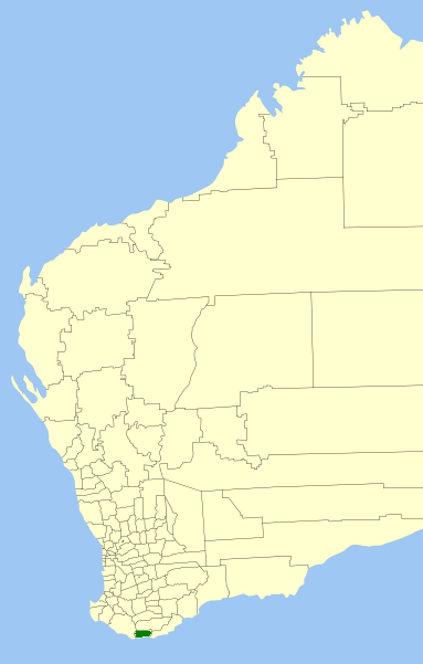 Description=Location of the Local Government Area in Western Australia